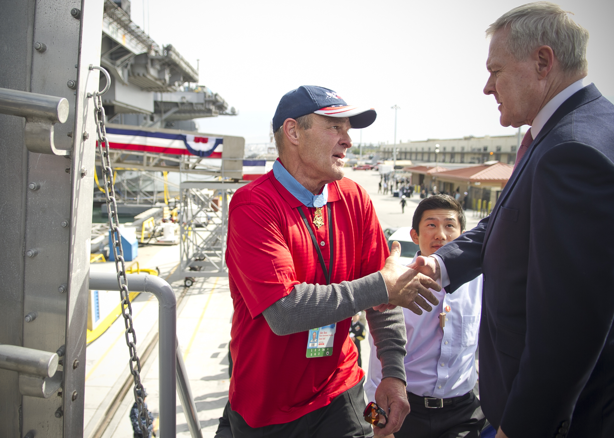 SAN DEIGO (Nov. 11, 2011) Secretary of the Navy (SECNAV) the Honorable Ray Mabus welcomes Congressional Medal of Honor recipient John P. Baca aboard the Nimitz-class aircraft carrier USS Carl Vinson (CVN 70). Mabus visited the ship to watch the NCAA Division I top-ranked North Carolina Tar Heels battle the Spartans from Michigan State University during the Quicken Loans Carrier Classic basketball game, Veterans Day. North Carolina beat Michigan State 67-55. (U.S. Navy photo by Chief Mass Communication Specialist Sam Shavers/Released)